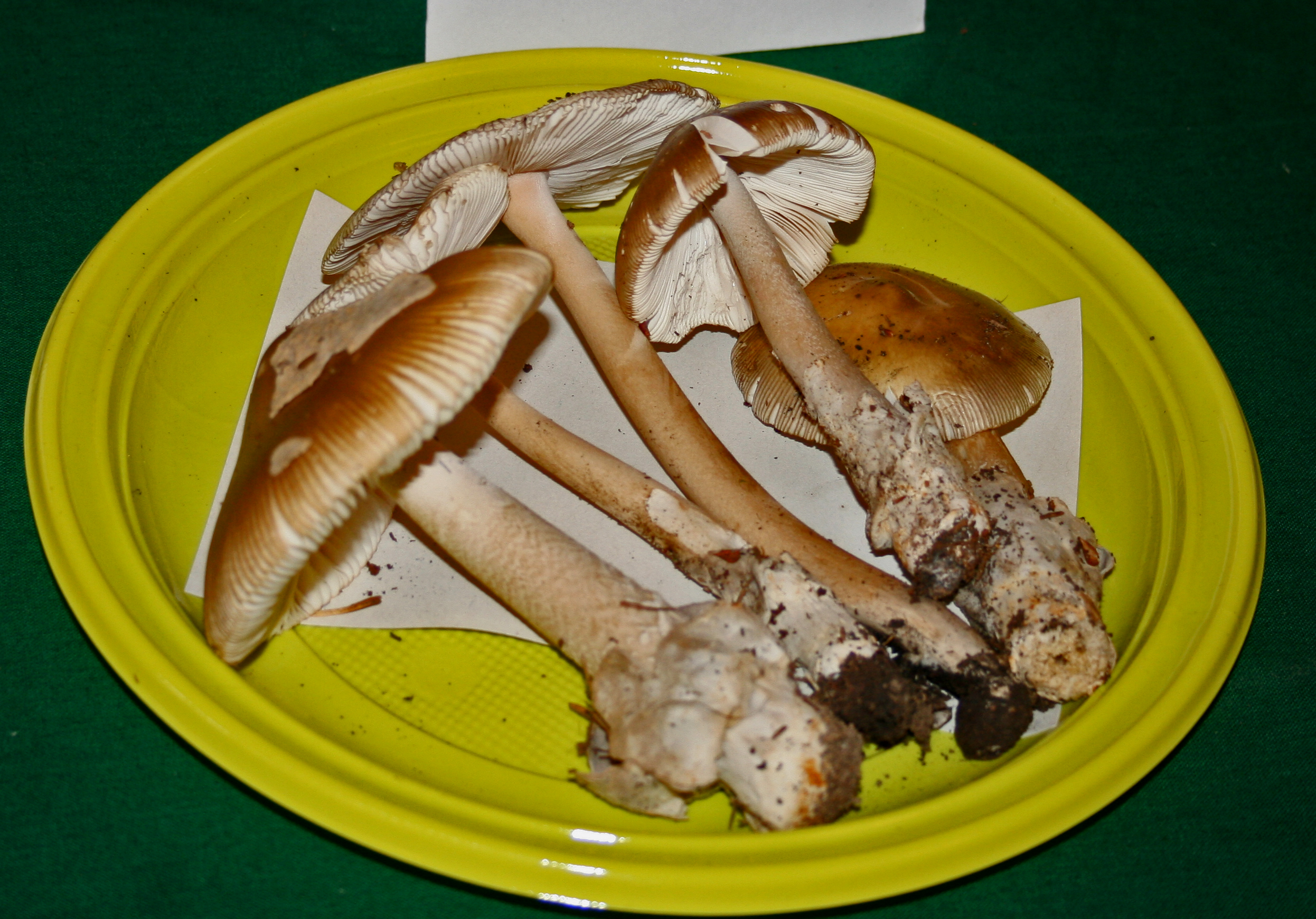 Amanita umbrinolutea on Prague international mushroom exhibition 2008, Czech Republic